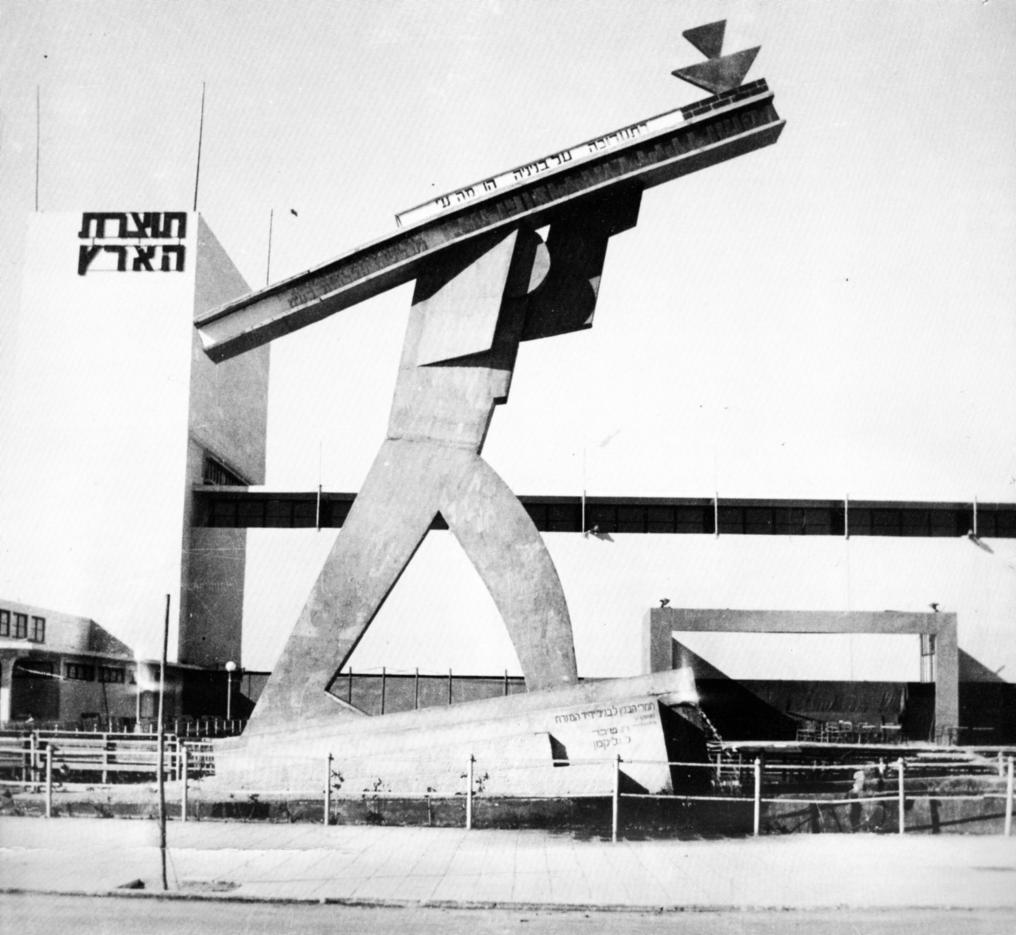 Hebrow Worker at the Lavant Fair, Tel Aviv, 1930s